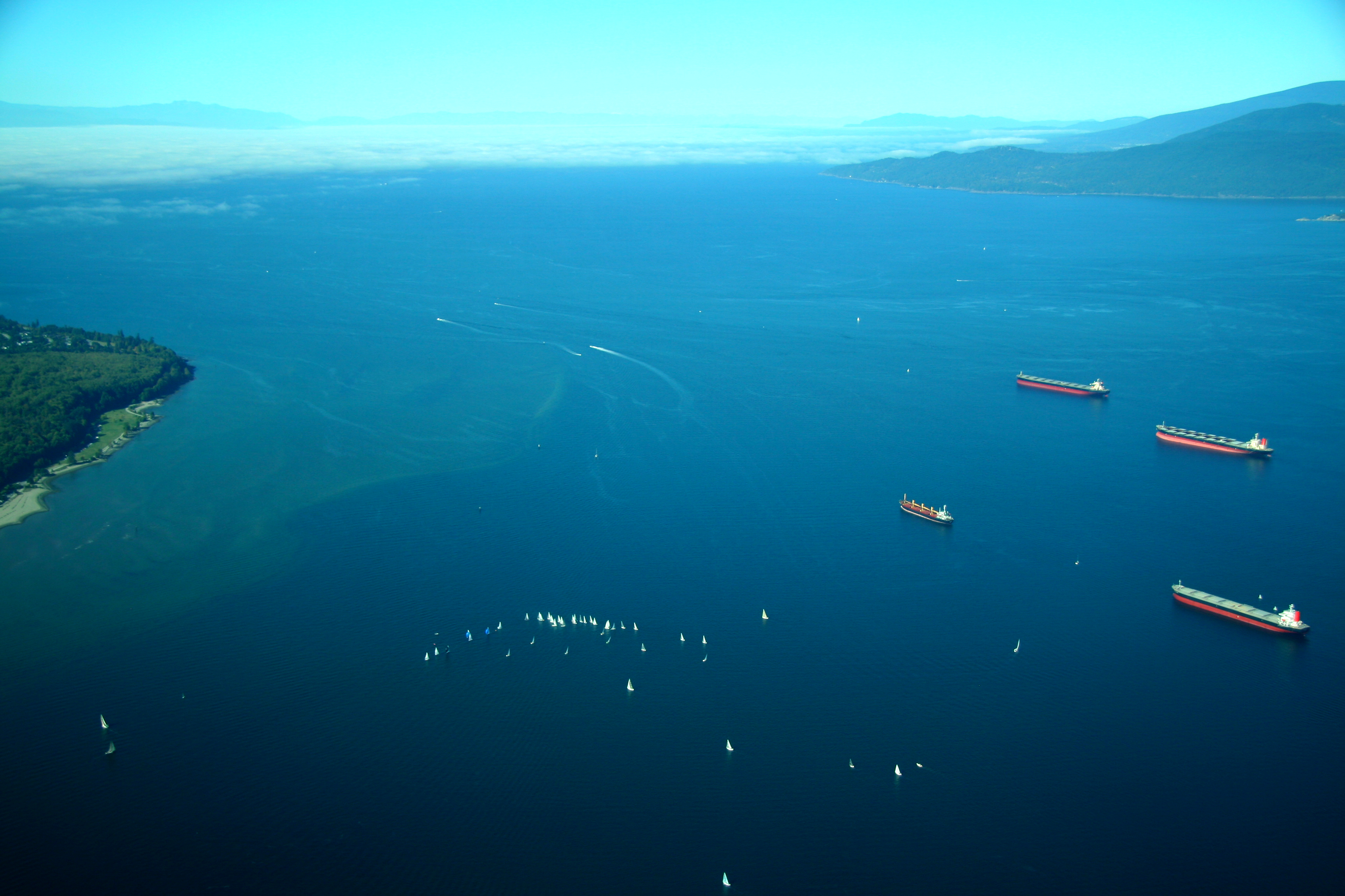 "Sail boat races out in English Bay", Vancouver